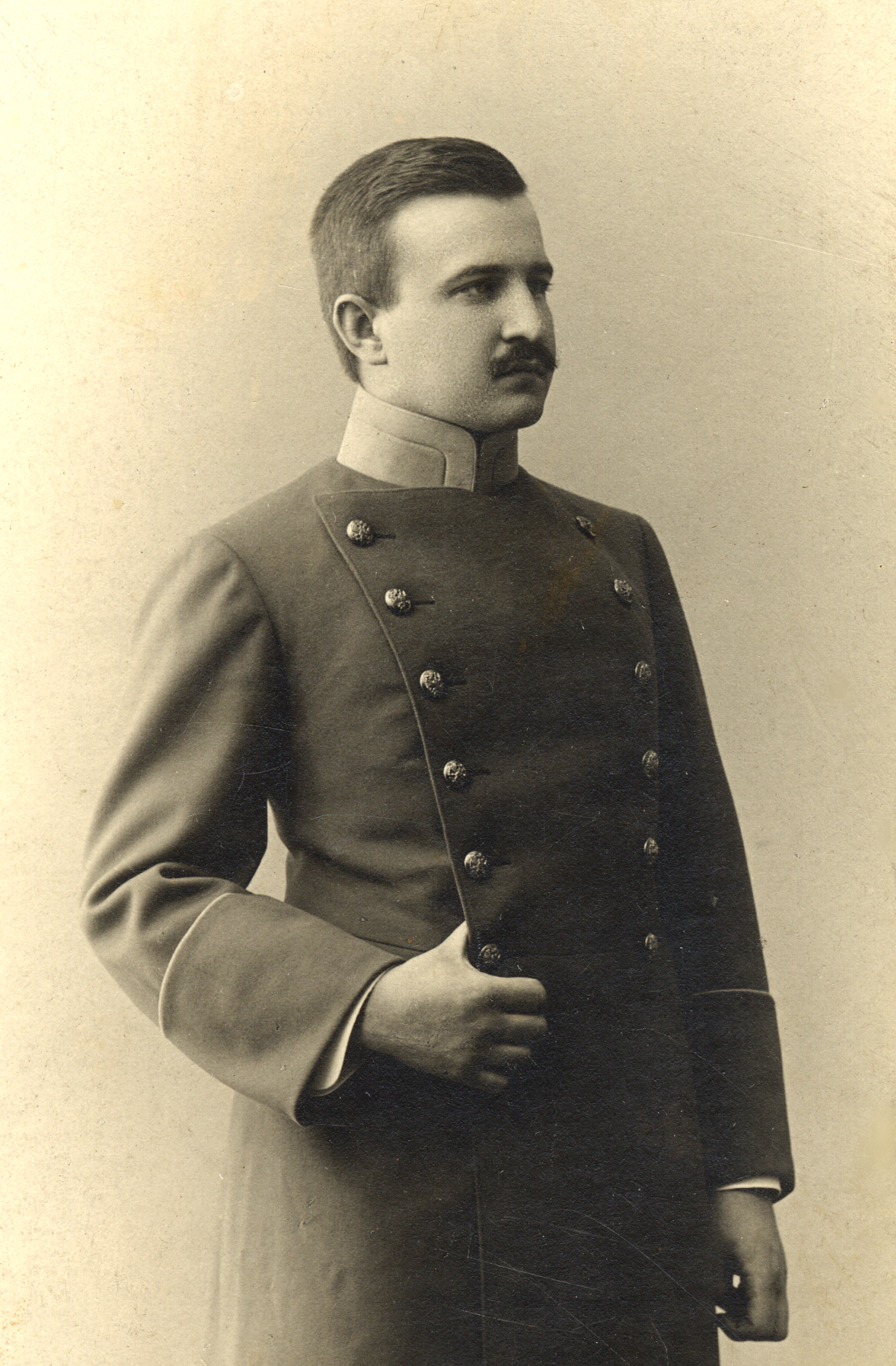 A. A. Lebedev — Student of S.-Petersburg’s University (1911-1916)